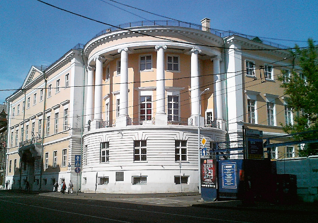 Moscow School (today - Russian Academy) of Painting, Sculpture and Architecture